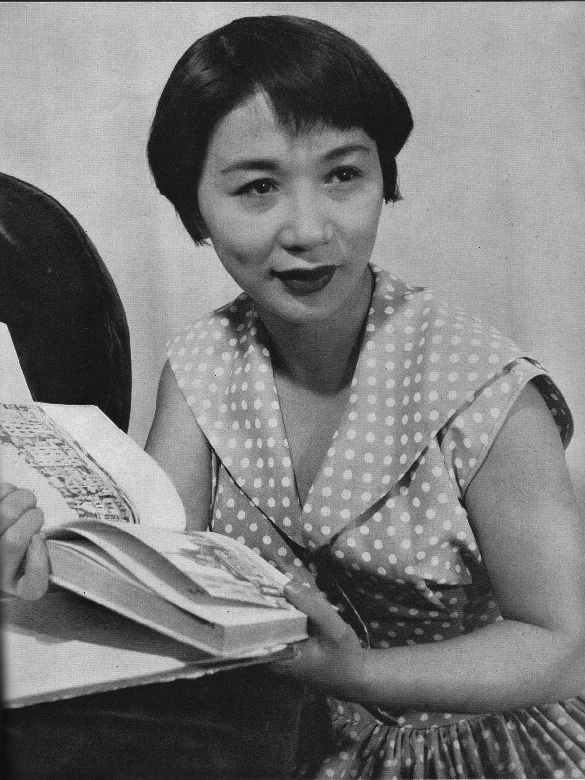 Mariko Miyagi (Japanese Vocalist, Actress and Activist) . taken in 1955.